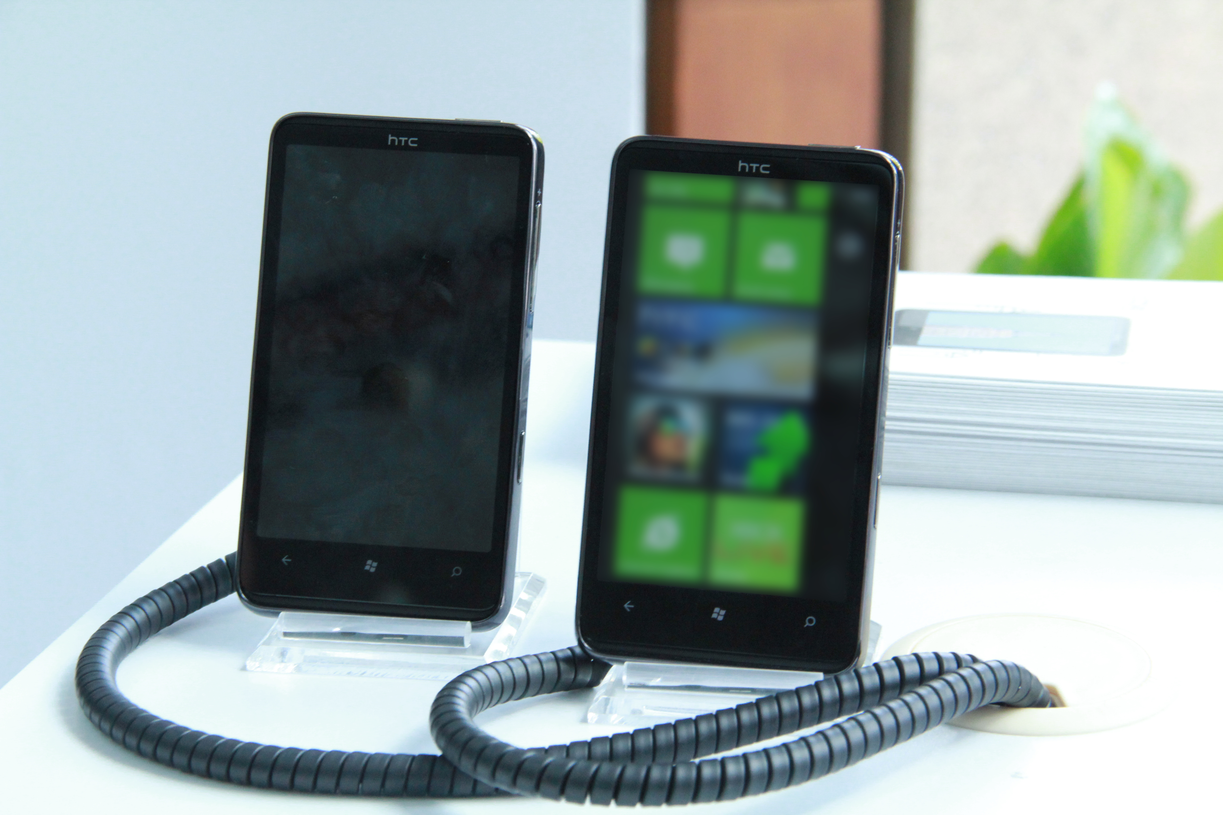 read all info here